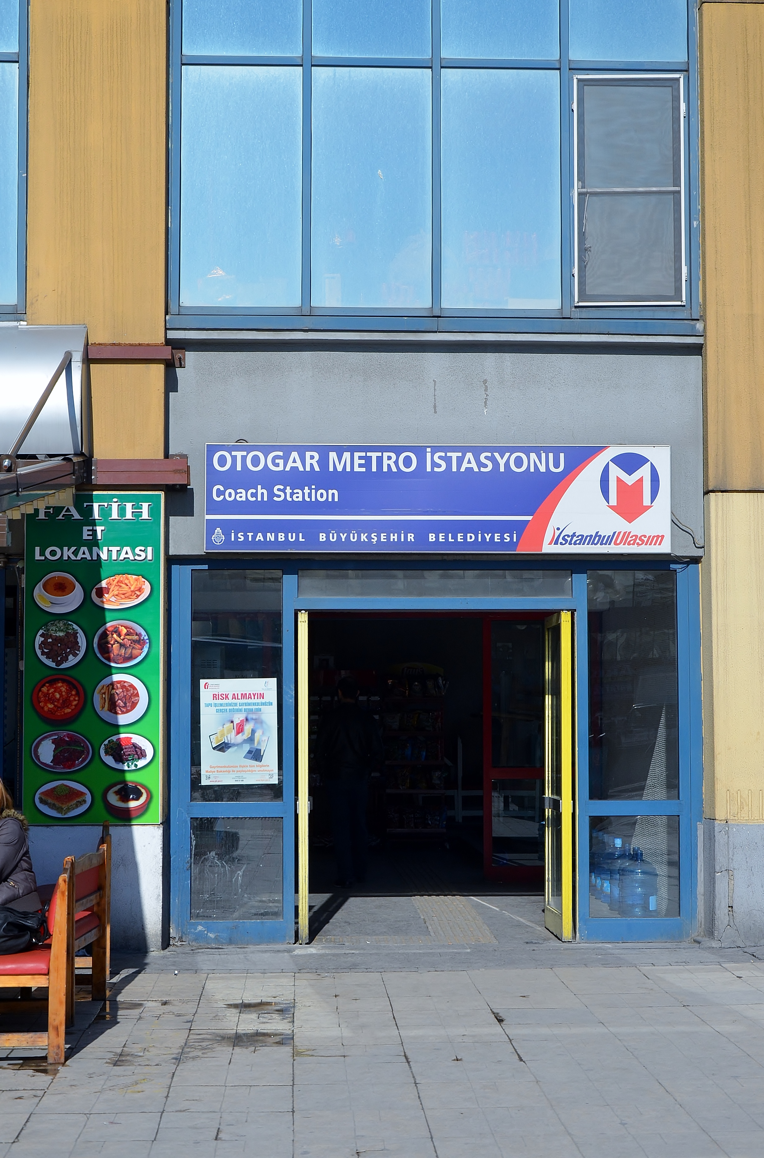 Entrance to Otogar metro station at Esenler Bus Terminus (Otogar) in Istanbul, Turkey